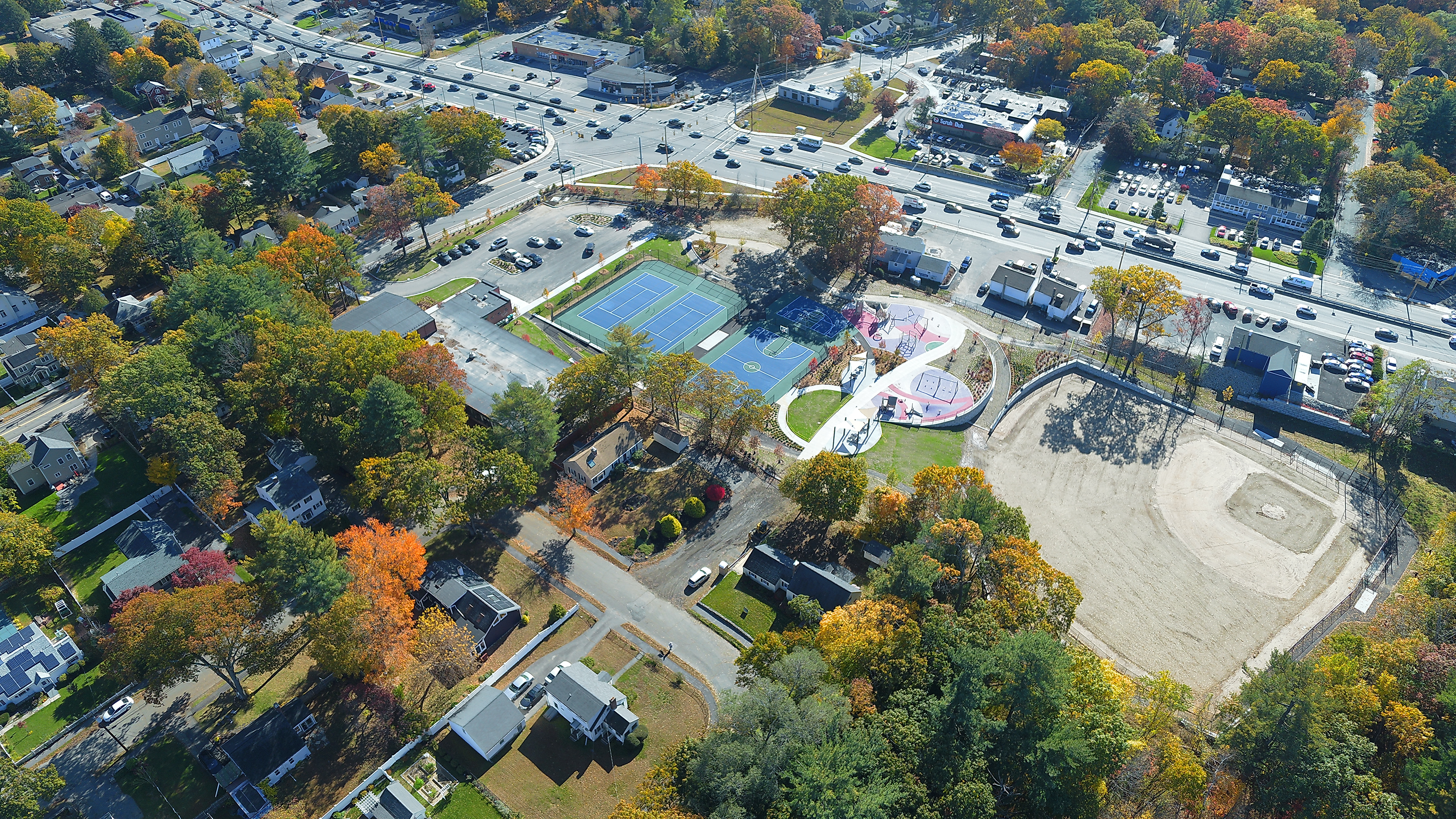 East Natick Rt. 9 & Oak Street, Connor Heffler Playground